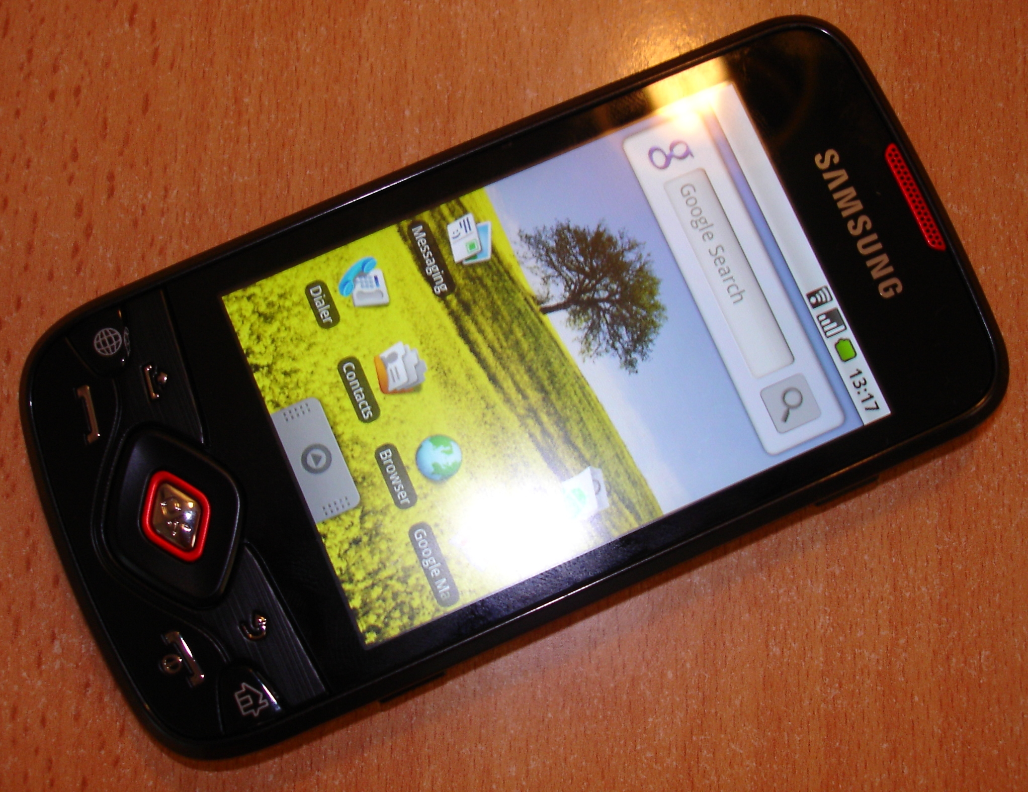 Image of Samsung i5700 Galaxy Spica mobile phone